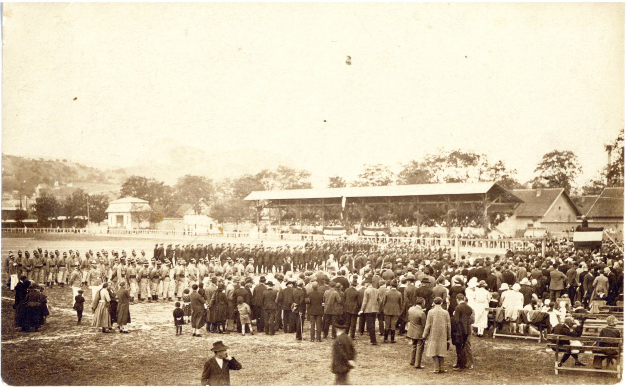 All youth male person had mandatory requirement to join to army formation in Hungary between two world war era. This was called "Levente" movement. Each inauguration was serious and significant celebration.